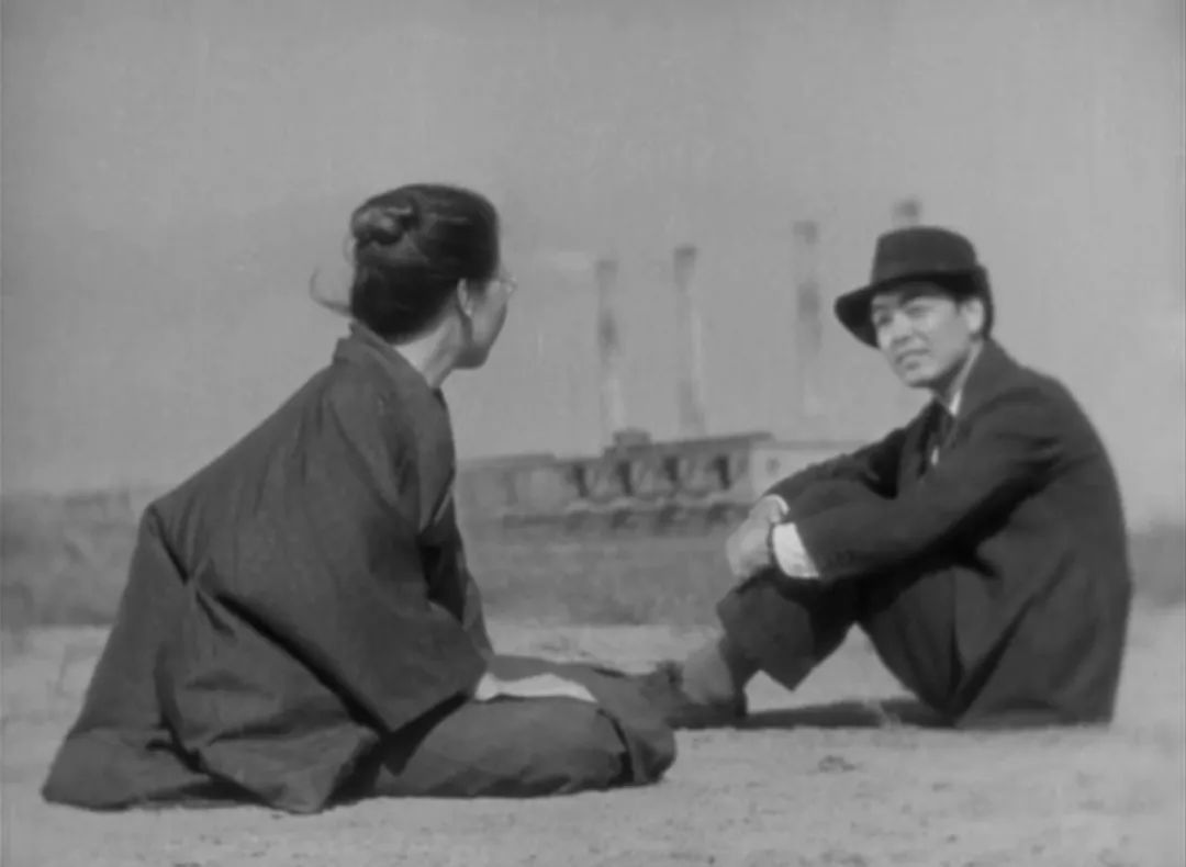 Chōko Iida and Shin'ichi Himori in Hitori musuko (一人息子) directed by Yasujirō Ozu - 1936